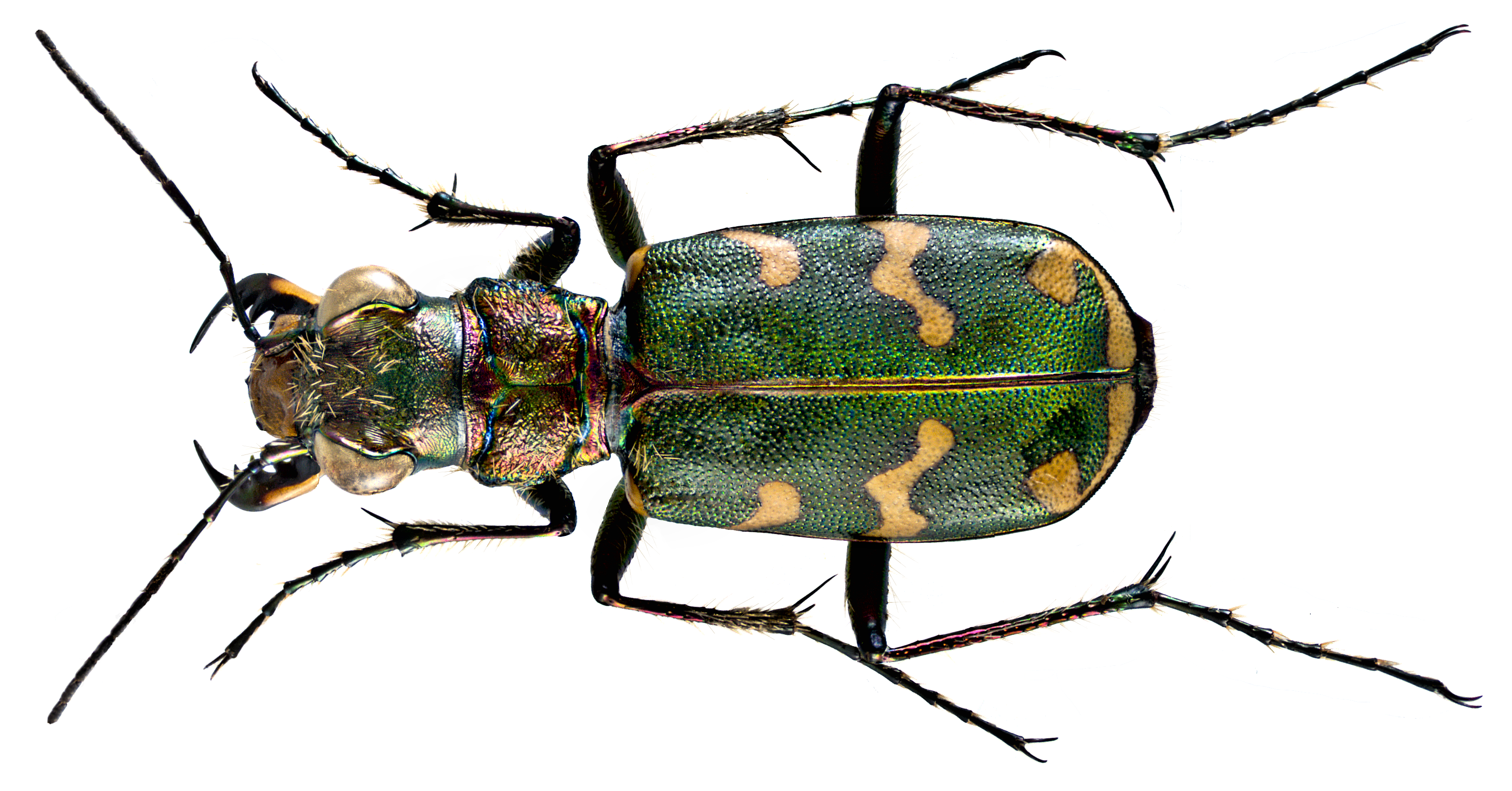 Family: Carabidae Size: 14,7 mm (12,0-16,0 mm) Distribution: West Europe, East Europe, South East Europe, Russia Location: Russia, Volgograd, Kamyshensky, Golubaja River Valley, 150 m leg. E.Alexeer, 15.-19.IV.2000; det. J.Gebert, 2014 Photo: U.Schmidt, 2014